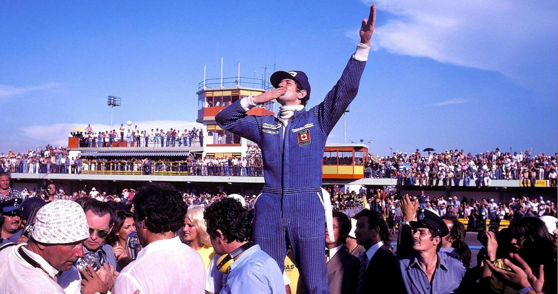 1977 Argentine Grand Prix Jody Scheckter celebrate